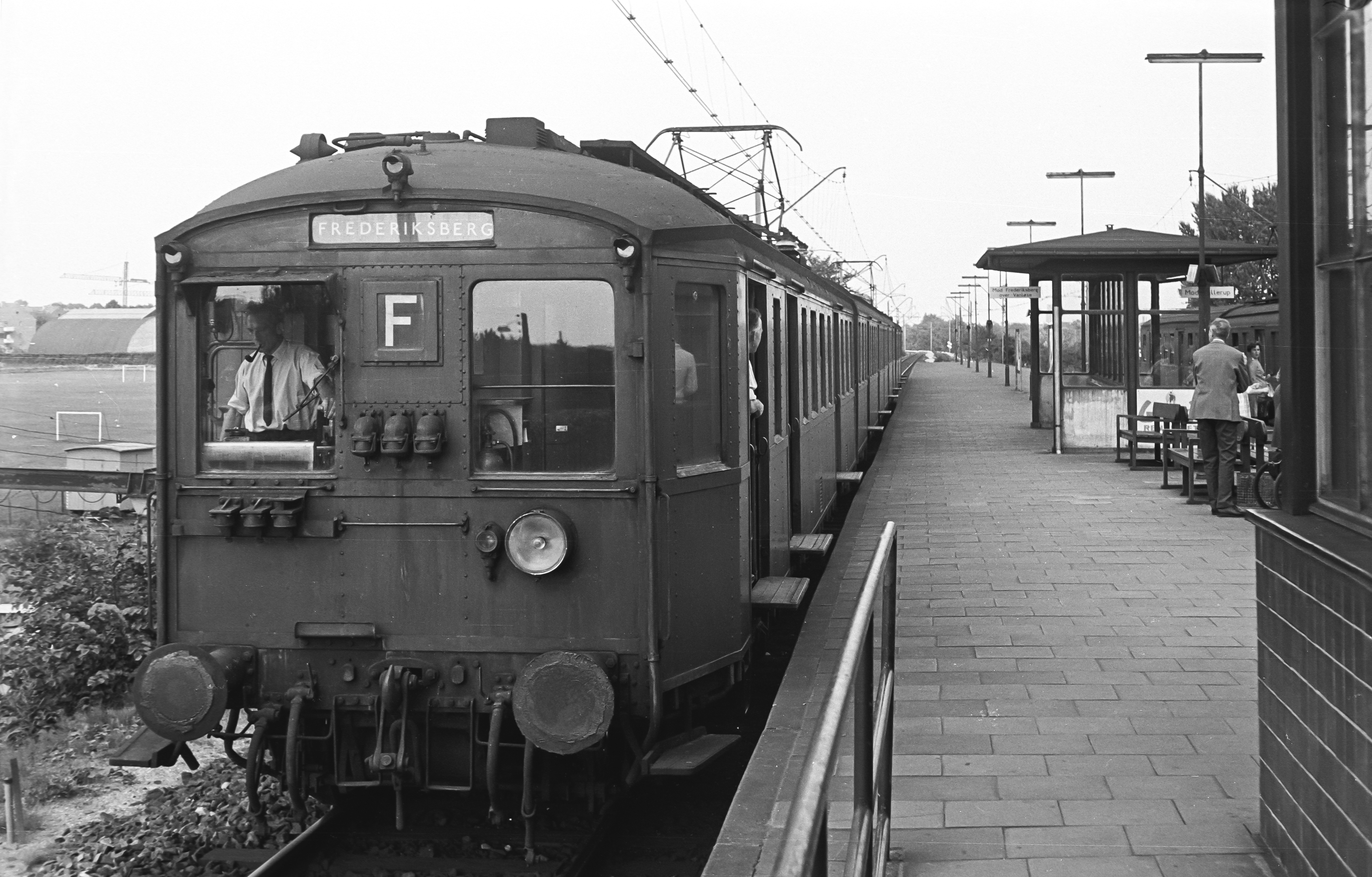 1st generation S-train on line F at Lyngbyvej Station (in 1972 renamed to Ryparken Station).